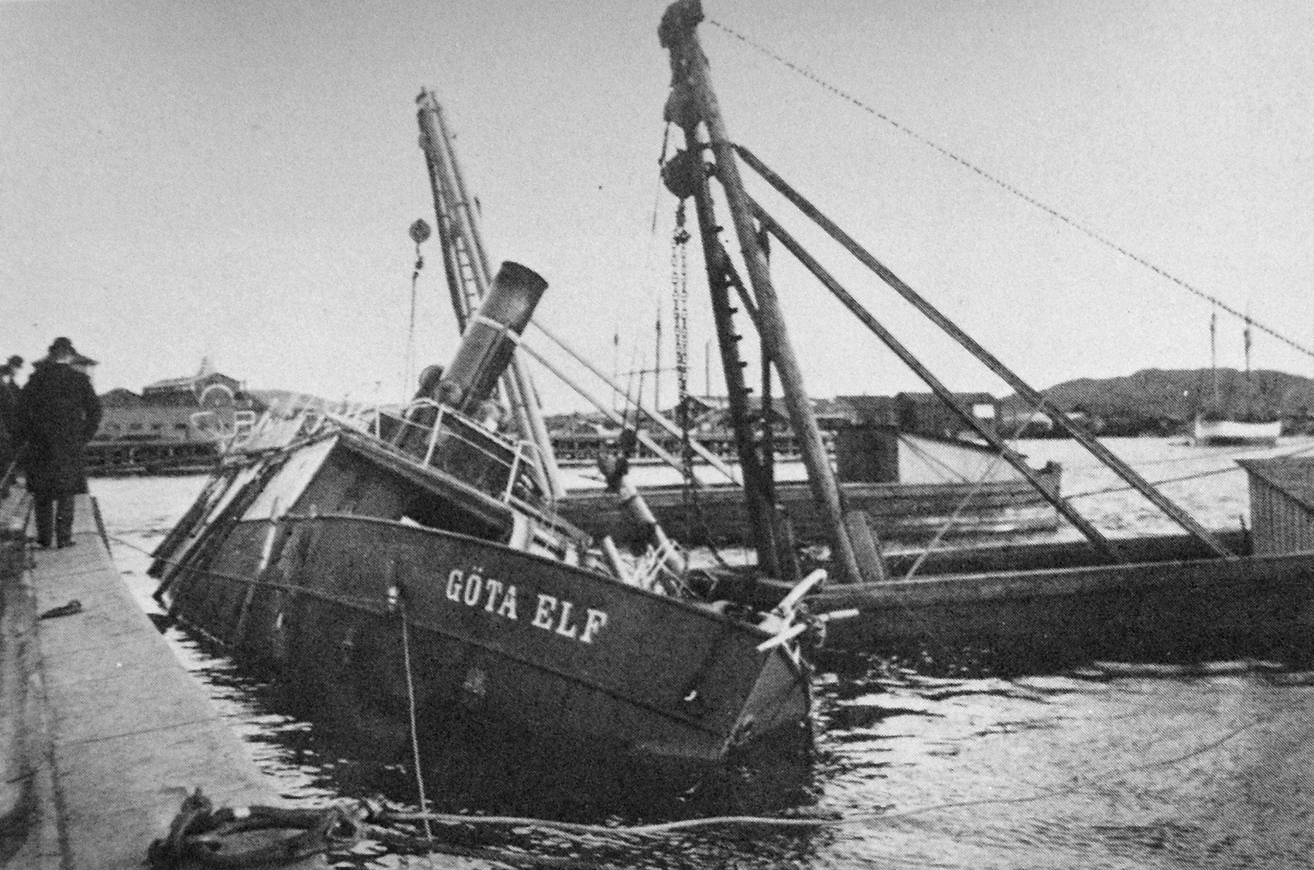 Picture of accident in Göteborg April 15 1908 (boat: Göta Älf)